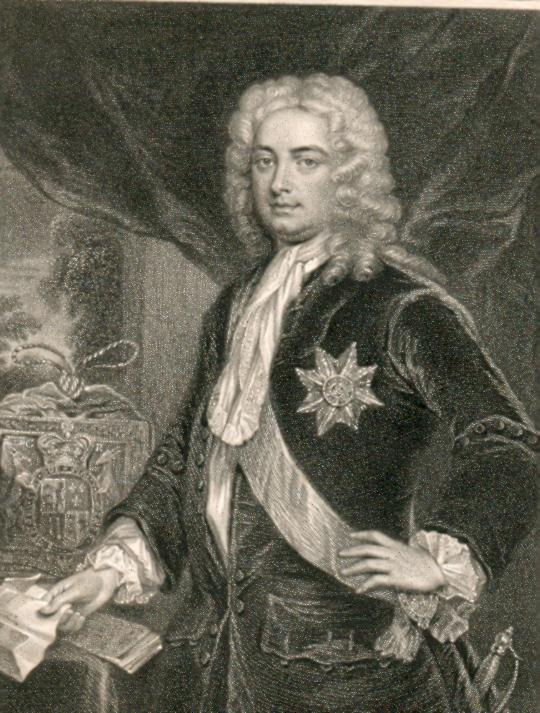 picture of Robert Walpole Prime Minister of Great Britain 1721-1742 II